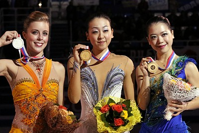 The ladies podium at the 2012-2013 Grand Prix of Figure Skating Final. From left: Ashley Wagner (2nd), Mao Asada (1st), Akiko Suzuki (3rd)